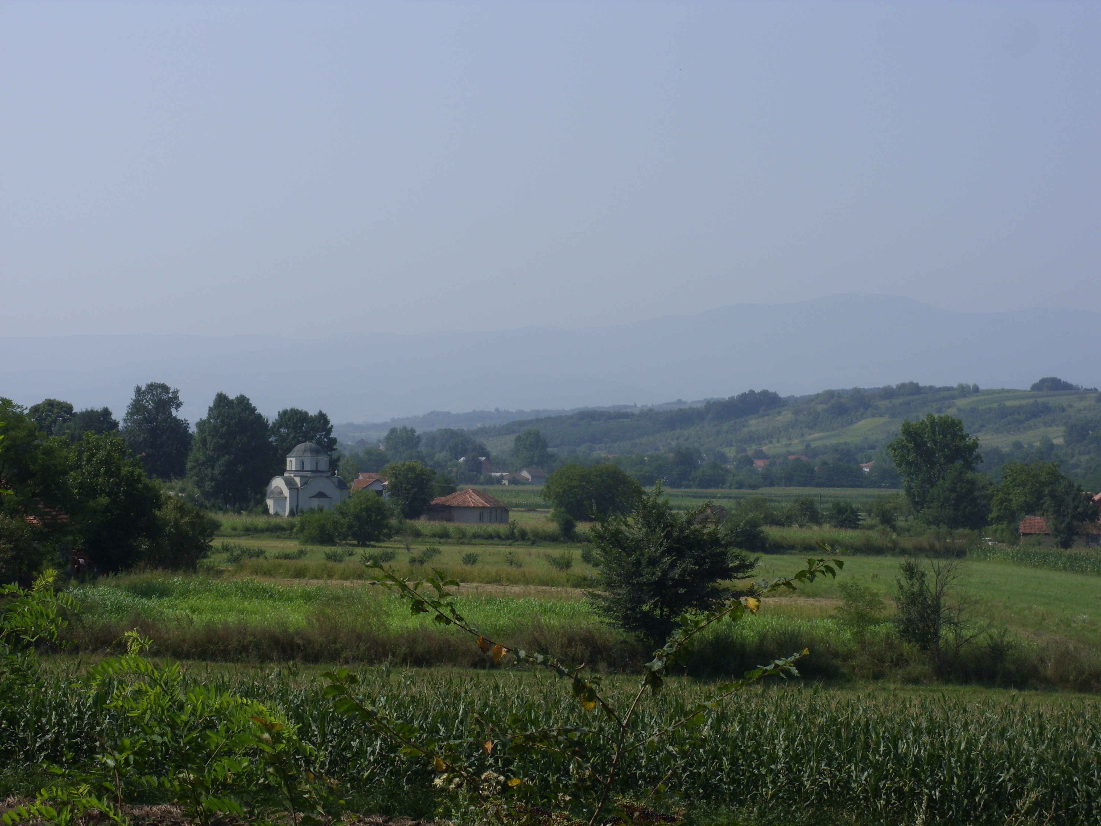 village Gredetin, municipality of Aleksinac, Serbia